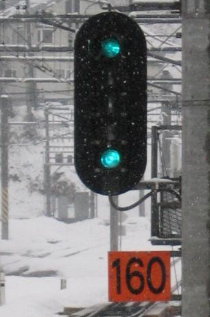 high speed signal at Matsudai station of Hokuetsu-Express line